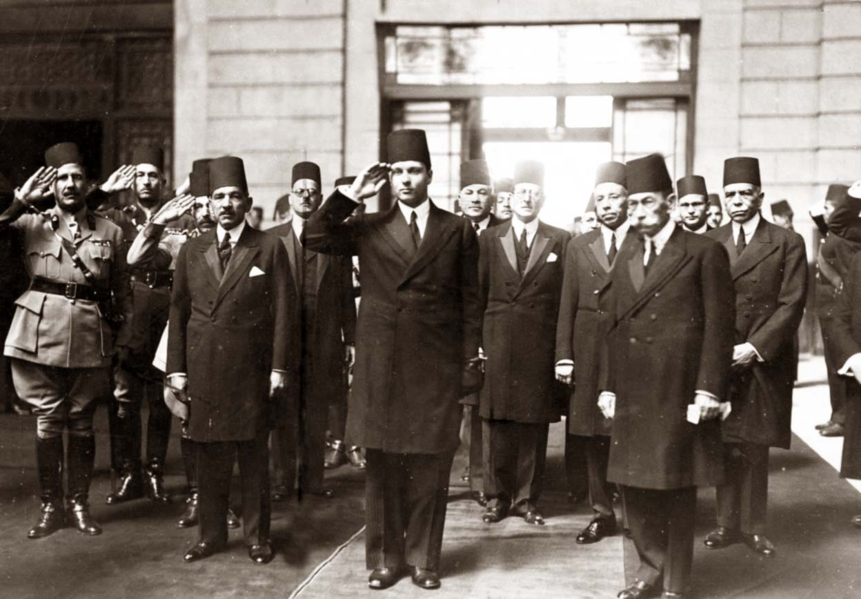 King Farouk I of Egypt leaving the Mahattet Masr Railway Station (currently the Ramses Station) with his ministers. He is seen performing a military salute. On his right is Ali Maher Pasha, and in the background are members of the royal guard.